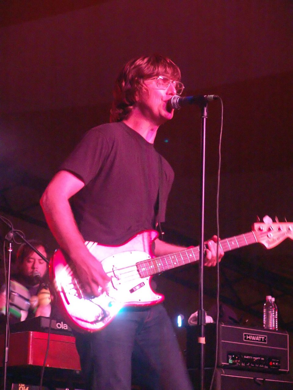 Chris Murphy performing with Sloan at the Sudbury Summerfest 2007 in Sudbury, Ontario, Canada